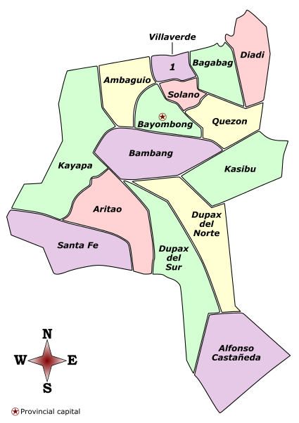 Labelled colored map of the province of Nueva Vizcaya, showing its component city and municipalities.